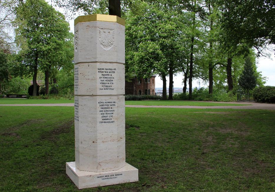 Stauferstele in Nijmegen (inaugurated on 2018/04/28 in the Valkhof)